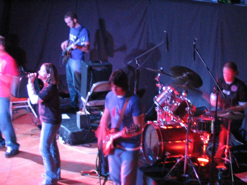 Photo by Kirsten Joyhill Event date: December 3rd, 2004 8:35PM Source: from her page [1] Description: Members of The Rock ISU worship team perform at Curtiss Hall on the Iowa State University Campus License: Creative Commons 2.0 [2]